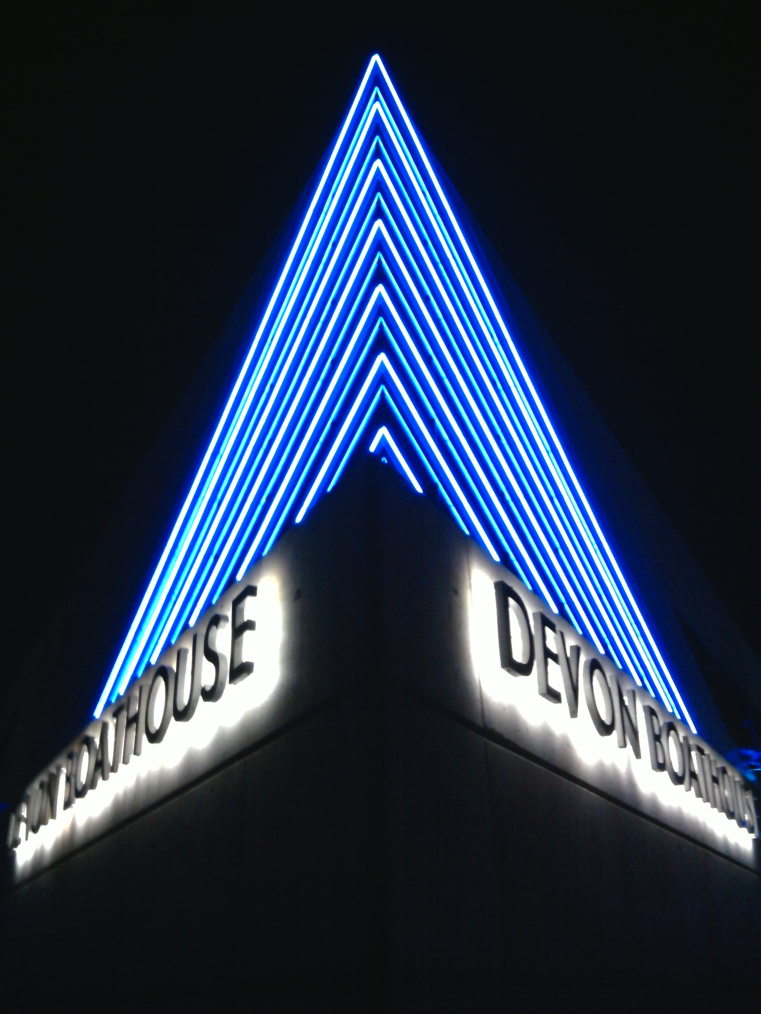 Devon Boathouse along the Oklahoma River in Oklahoma city at night. Home of Oklahoma City University rowing.